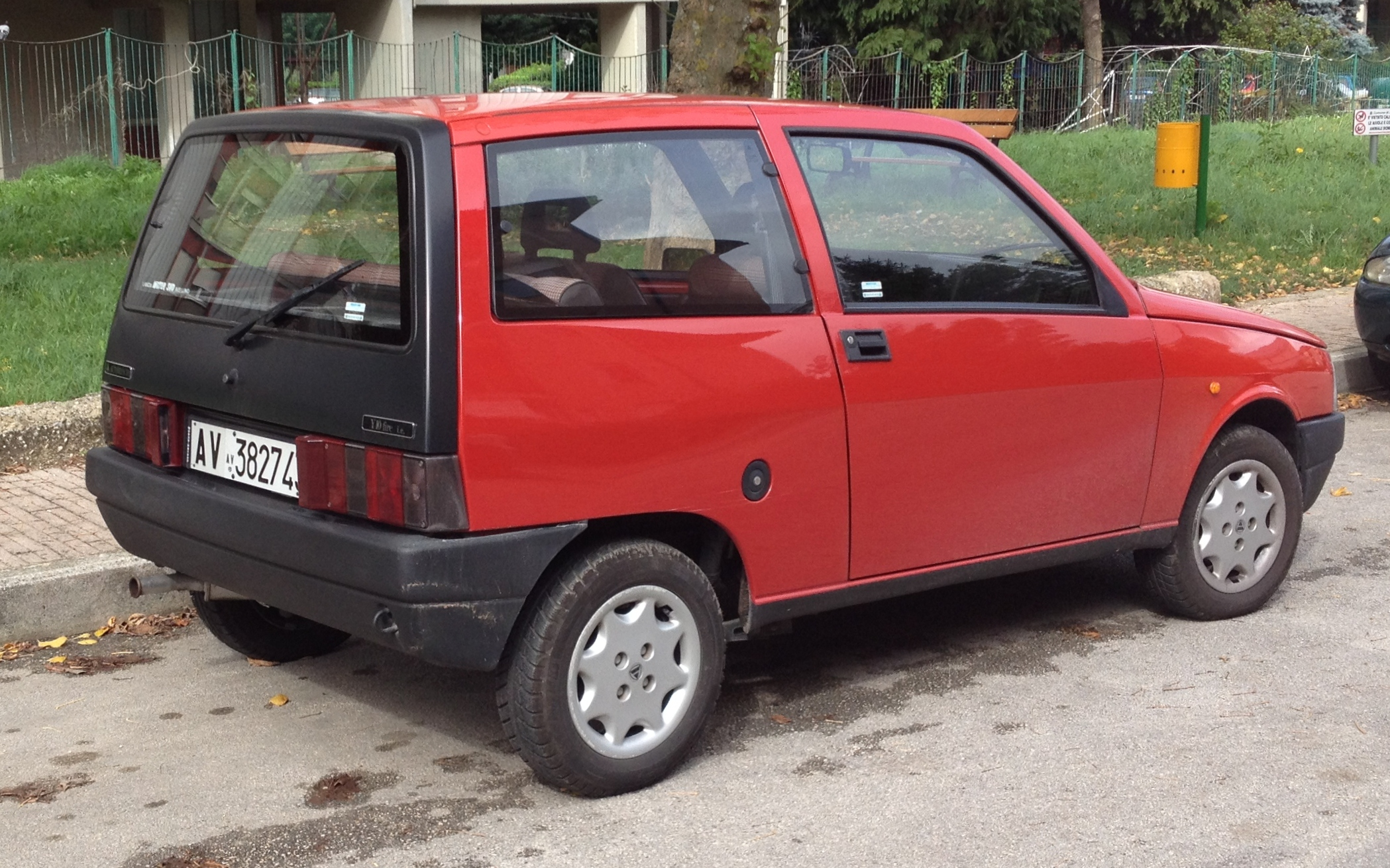 Autobianchi Y10 Fire i.e. rear in Avellino